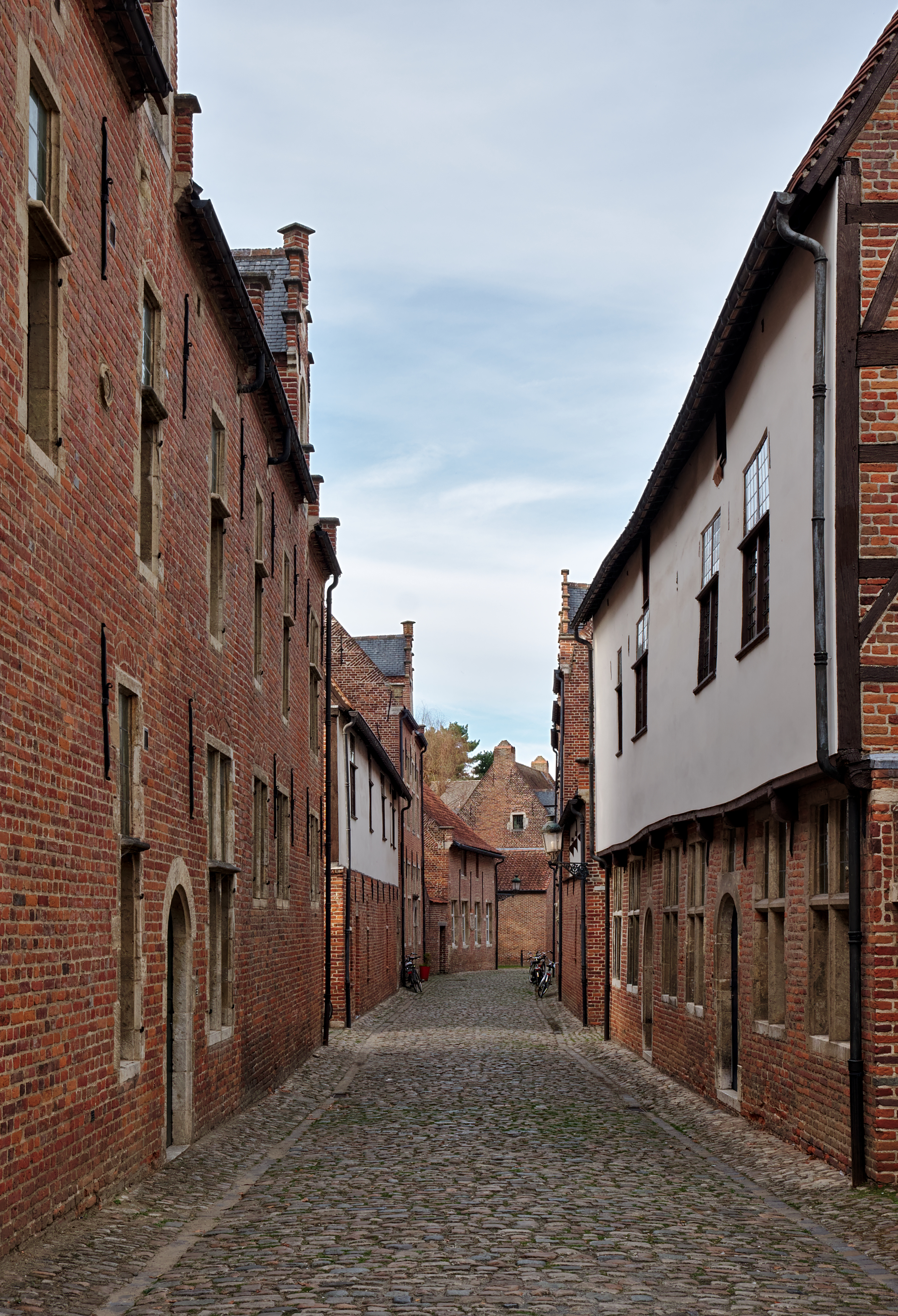 Middenstraat, Groot Begijnhof of Leuven This photo of immovable heritage has been taken in the Flemish Region